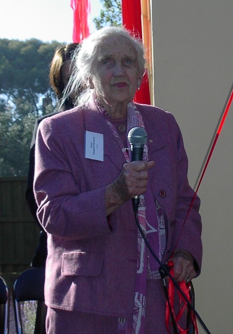 Photo taken by User:Adam Carr, May 2005